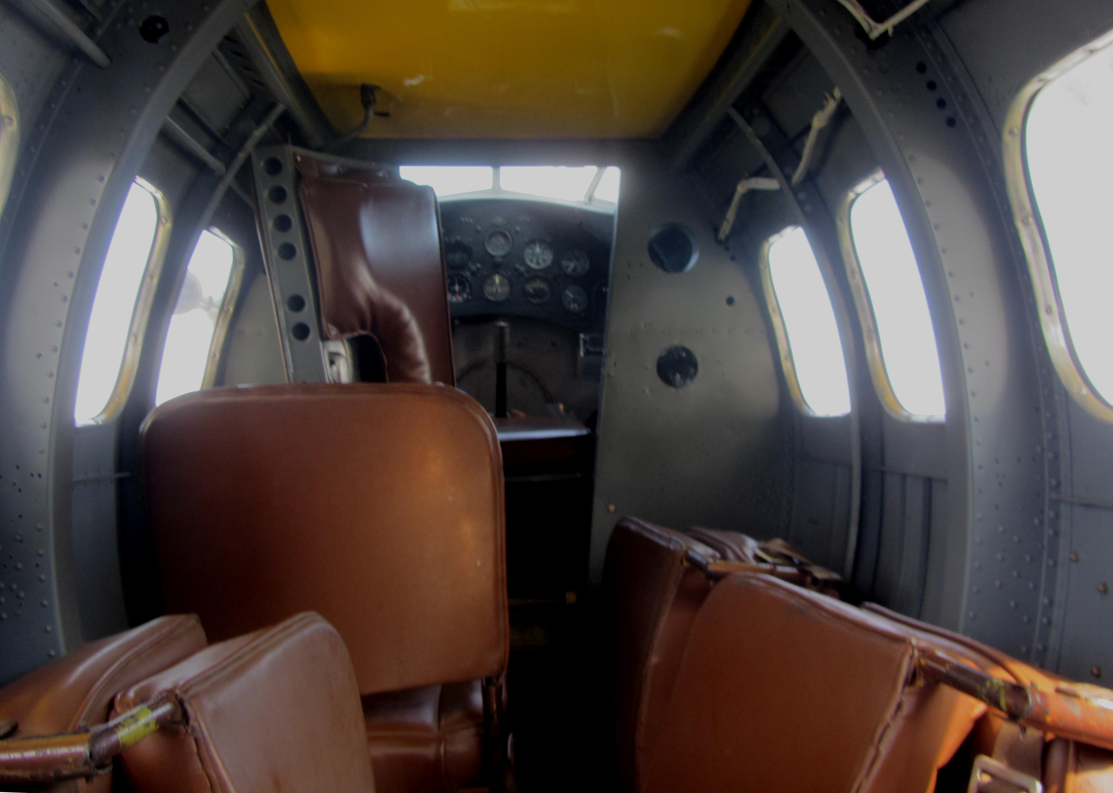 Lockheed Vega Interior - Metal Fuselage Variant